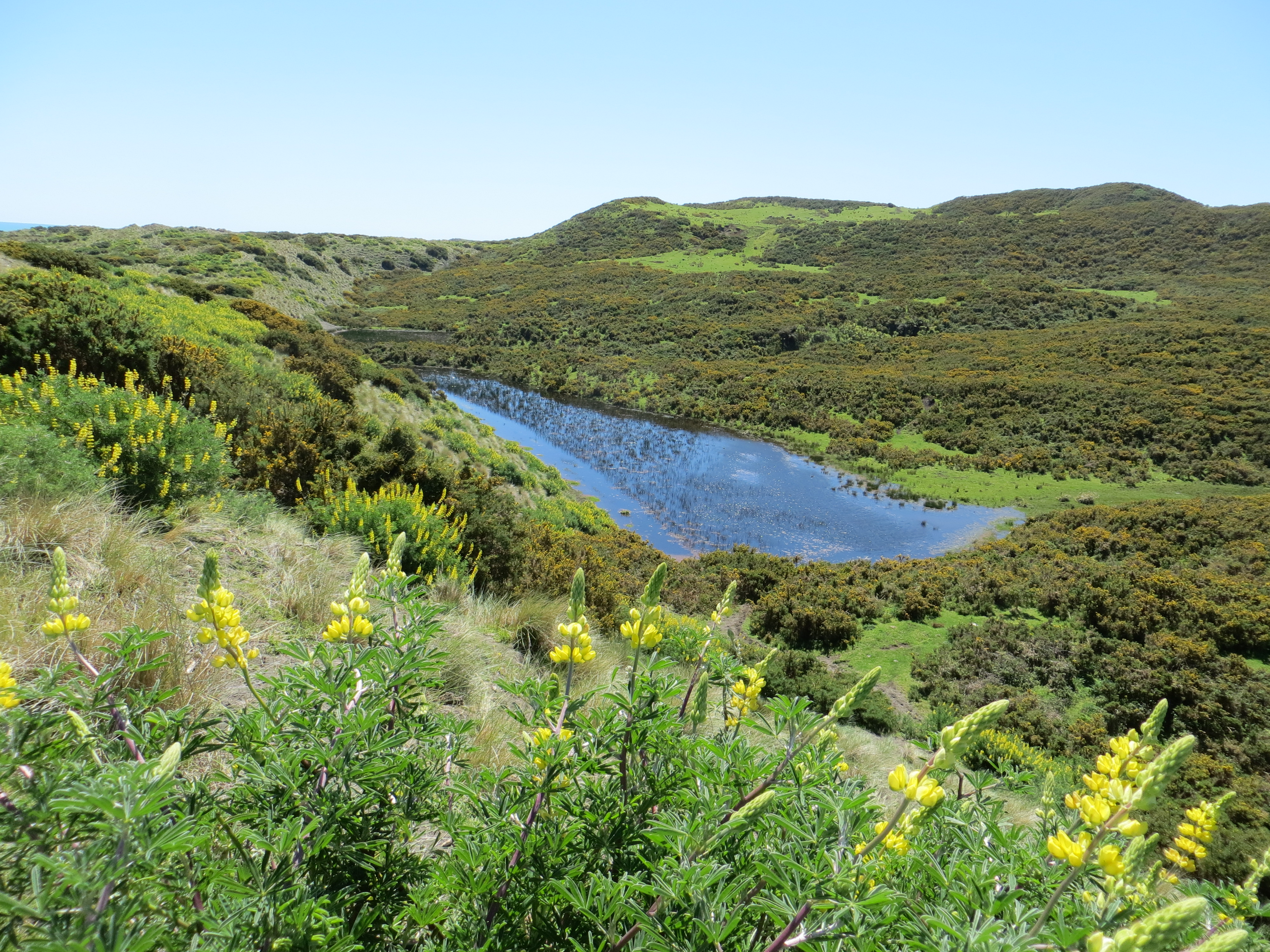 tree lupins